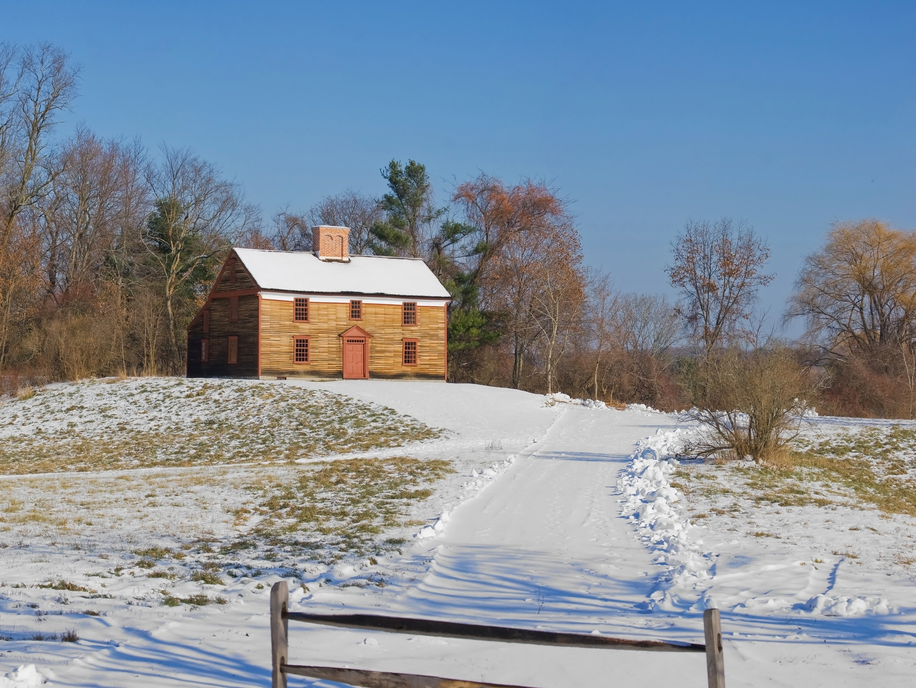 A classic saltbox type house, outside of Lincoln, MA